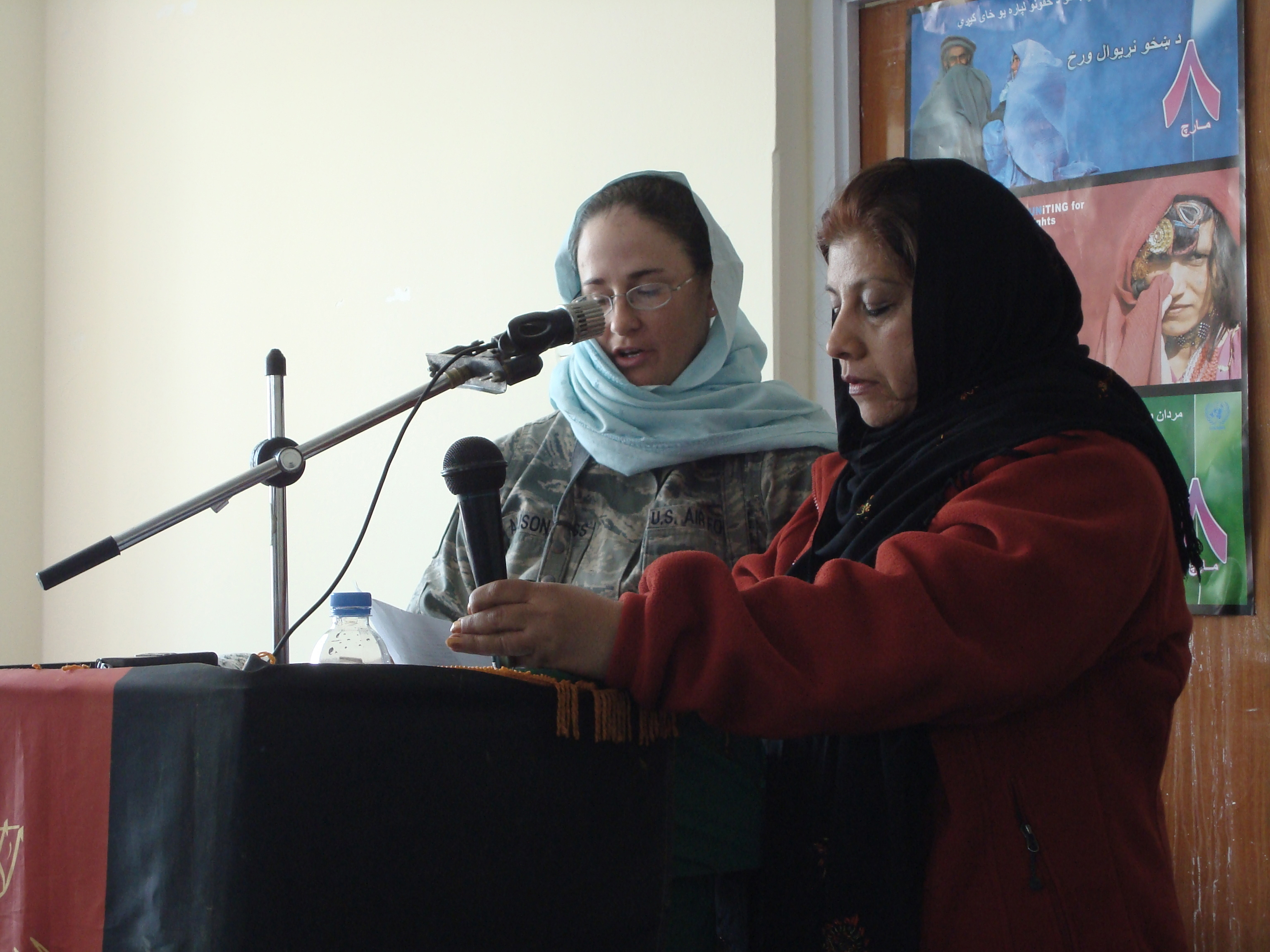 NCO speaks at International Women's Day event Tech. Sgt. Dawn Allison-Hess, accompanied by interpreter Jamila, speaks with nearly 125 women and girls from Panjshir Valley who attended the March 8 International Women's Day celebration in Bazarak District in Afghanistan. The audience heard from the province's deputy governor and a former female Afghan judge. Sergeant Allison-Hess is the Panjshir Provincial Reconstruction Team intelligence officer and is deployed from Goodfellow Air Force Base, Texas. (U.S. Air Force photo/Capt. Stacie N. Shafran)